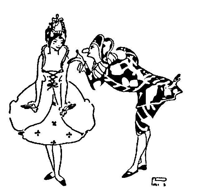 Illustration at top of page 27, Harper's Weekly, for the story, Love in a Dutch garden. Author: Neith Boyce; illustrator: Frances W. Delehanty